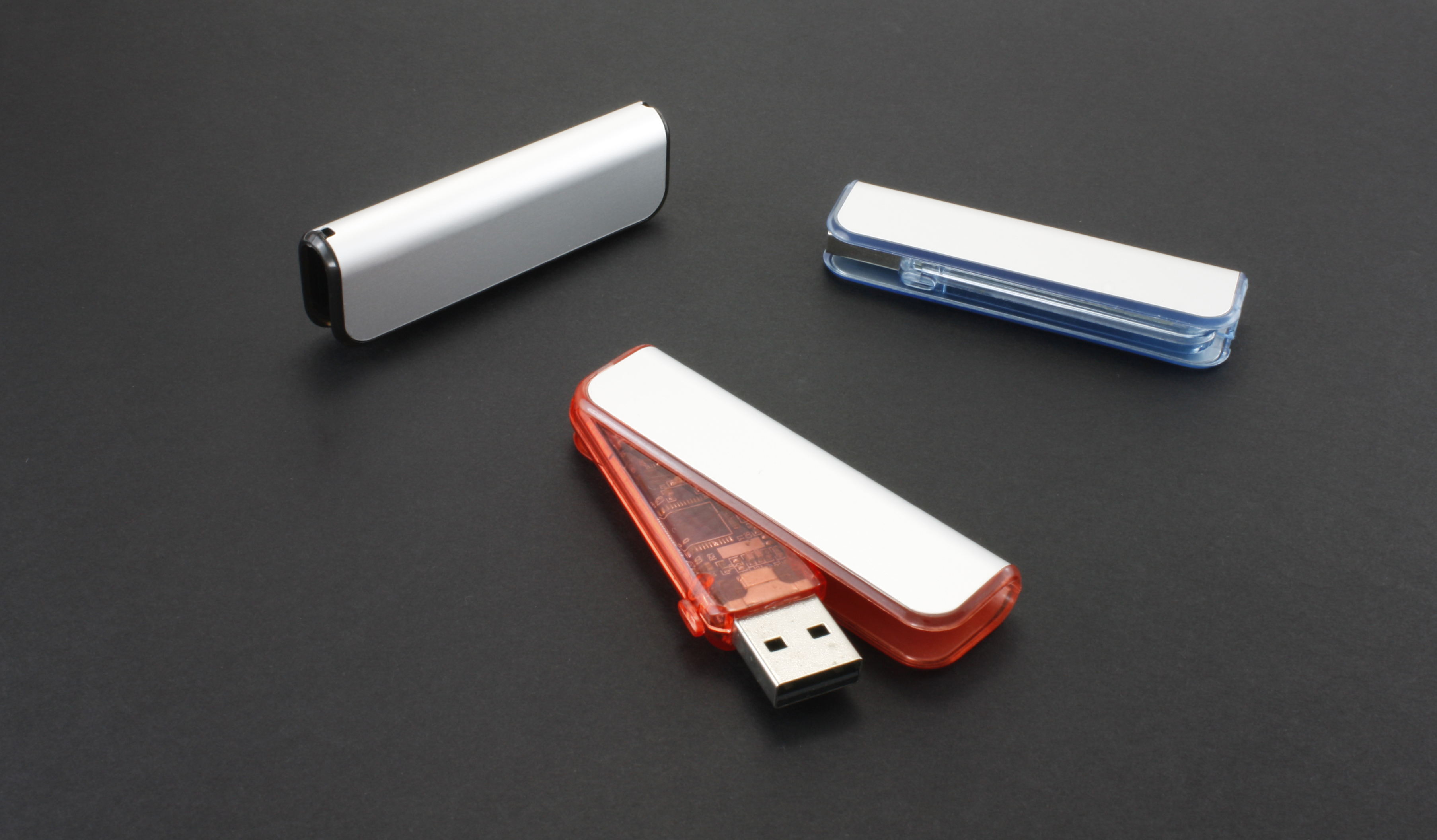 Swivel cap flash drives in various colors.